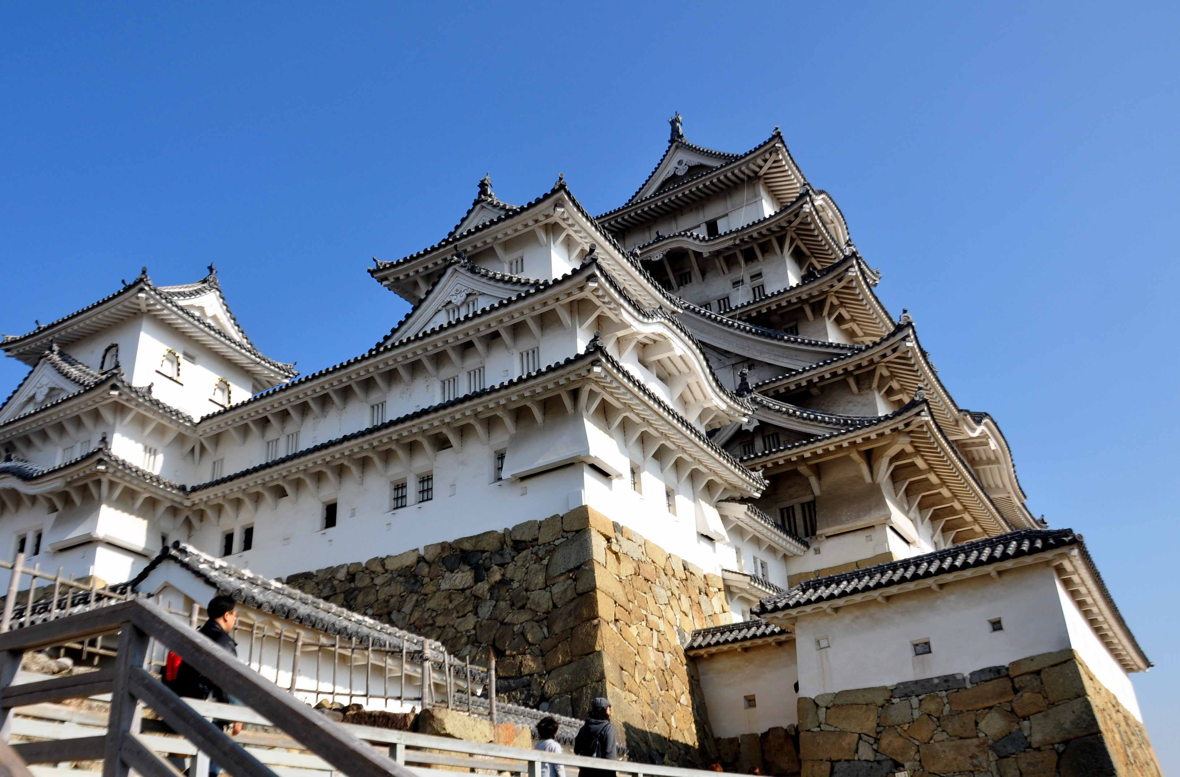 Himeji castle, Japan